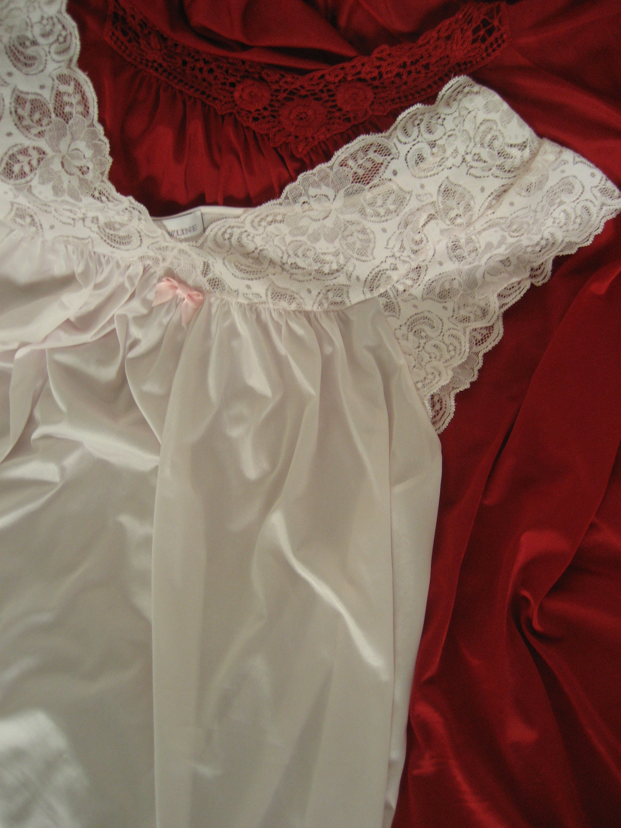 Shadowline Nightgowns